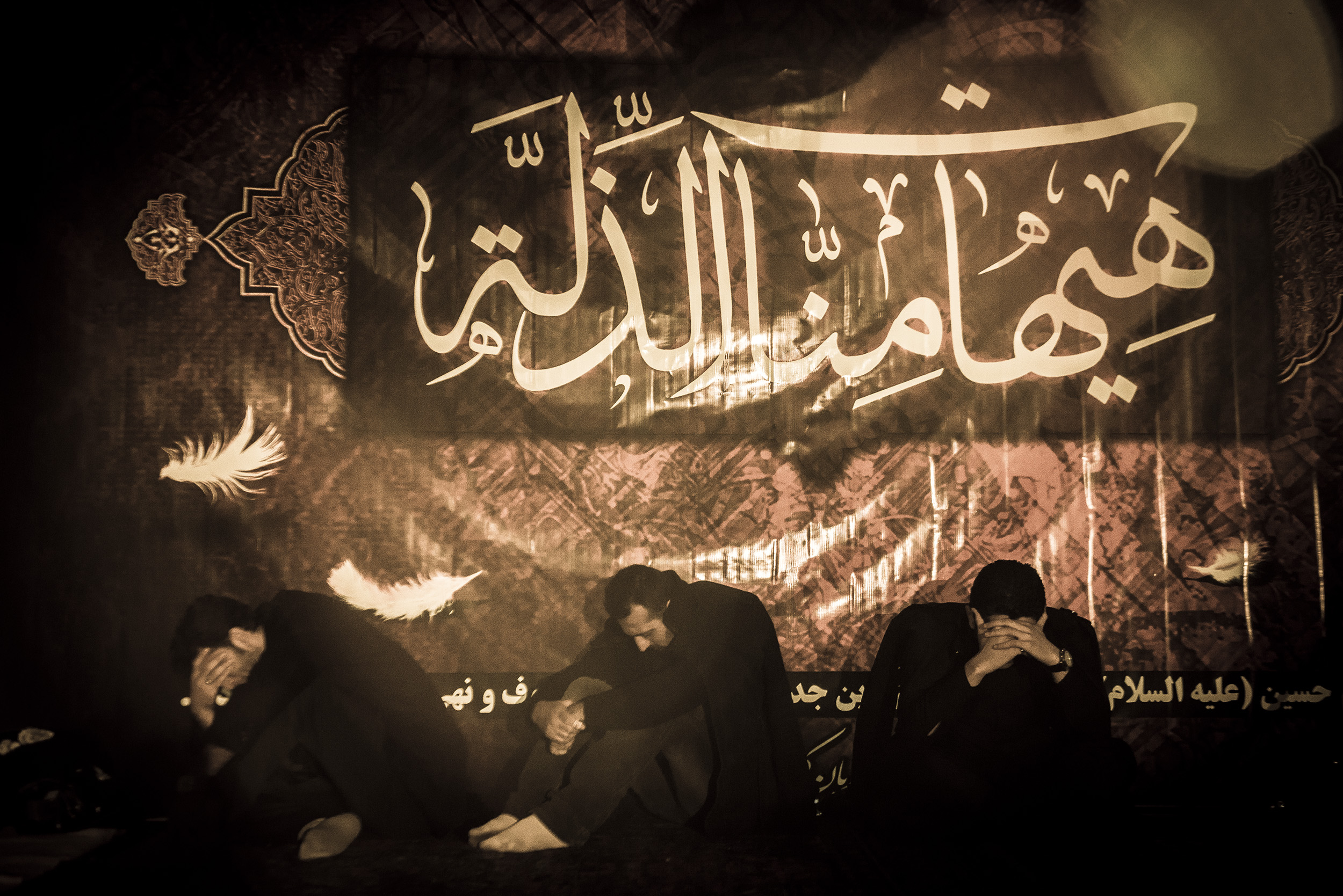 Mourning of Muharram is held in majority of cities and villages in Iran by Shia Muslims annually. Although all sort of ceremonies are performed for Imam Hossein and his followers martyrdom remembrance, they have different styles and rules referring to various cultures.